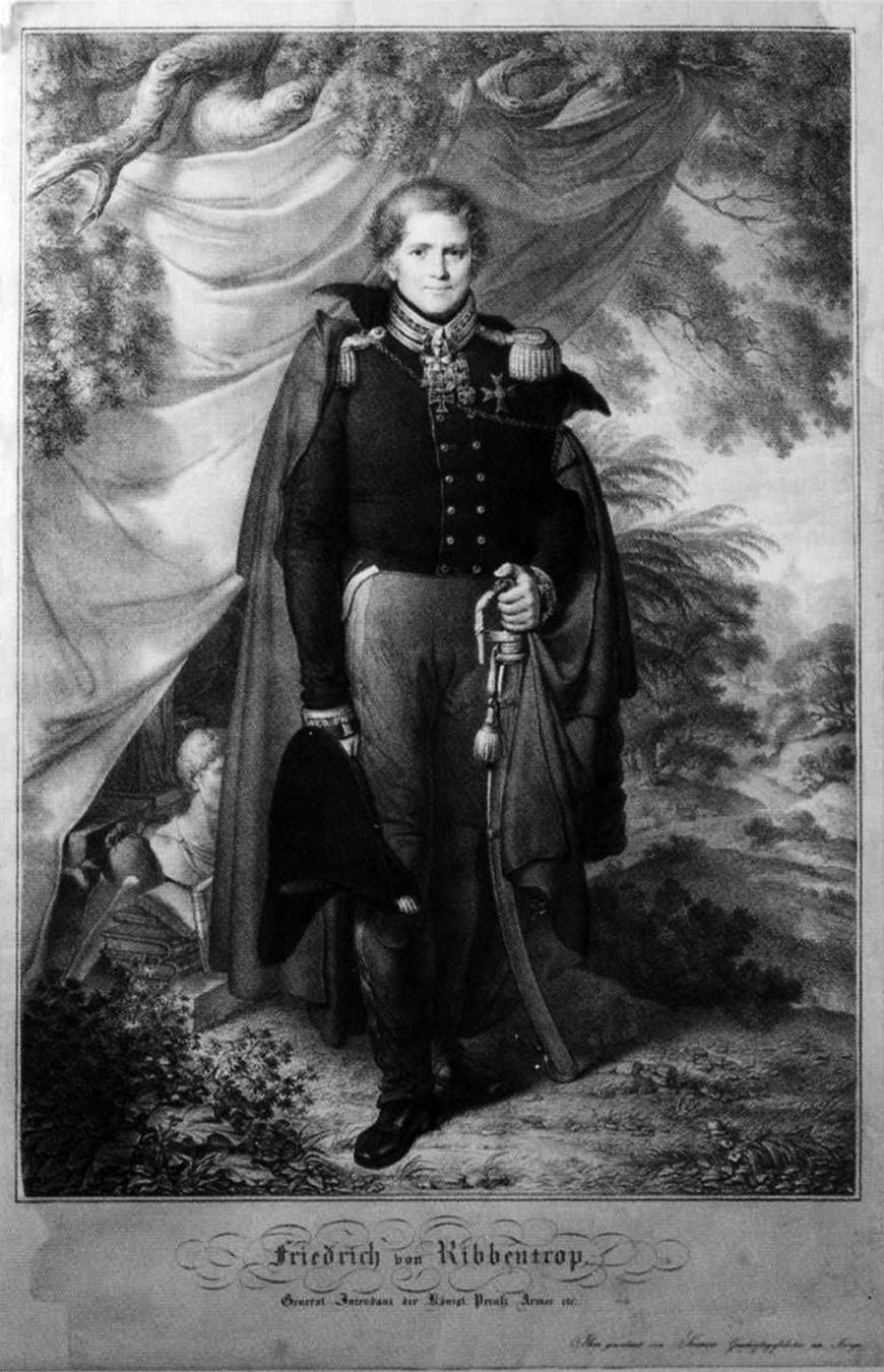 Friedrich von Ribbentrop, General Director of the Royal Prussian Army, artist unknown (1838). Lithograph, 73.5 x 58 cm. Privately owned. Ribbentrop is propping himself on the saber of Ferdinand von Schill, which he carried from 1812-1815.